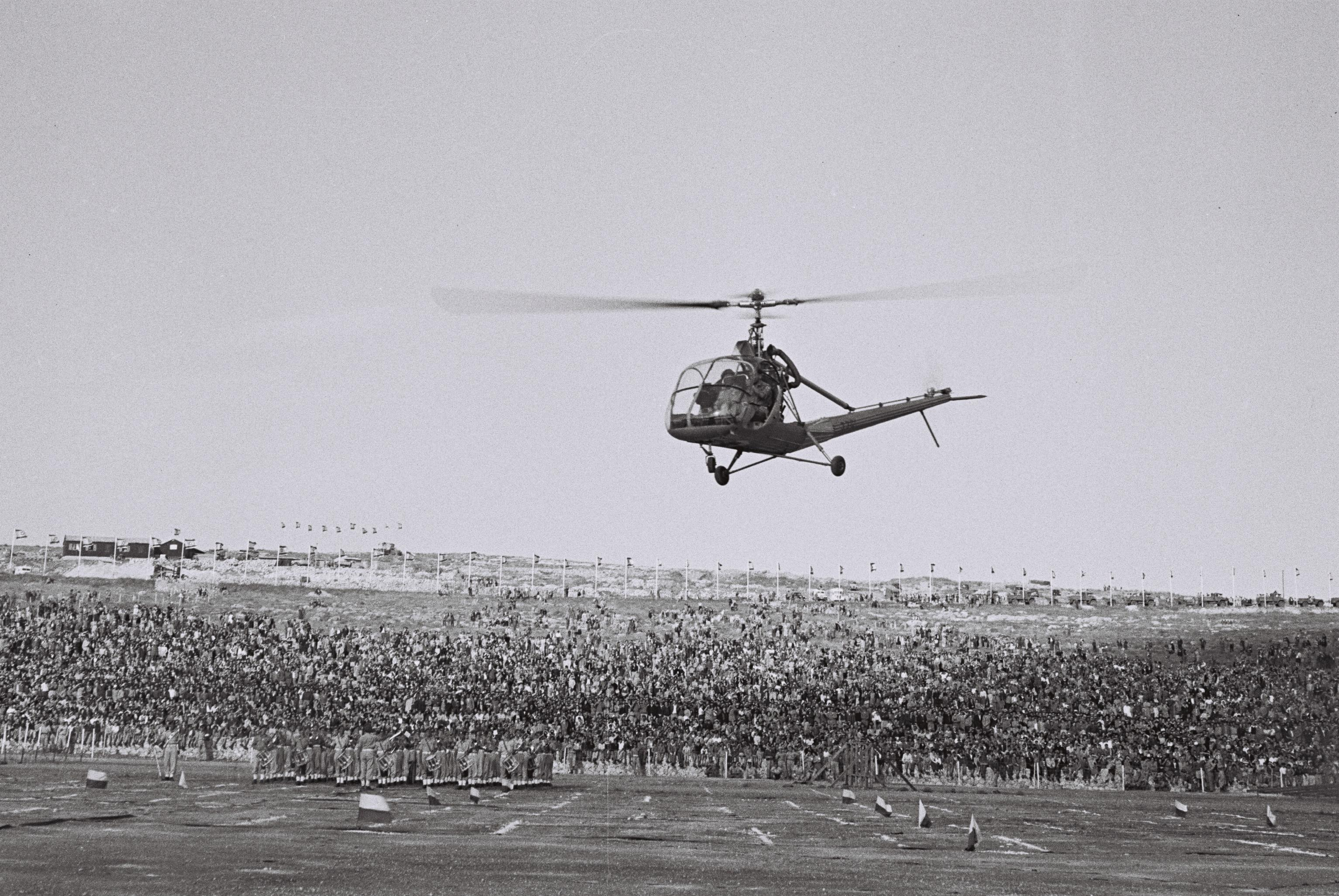 IDF Air Force Hiller OH23 during a parade in Jerusalem